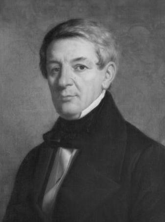 David Vonwiller (1794-1856)